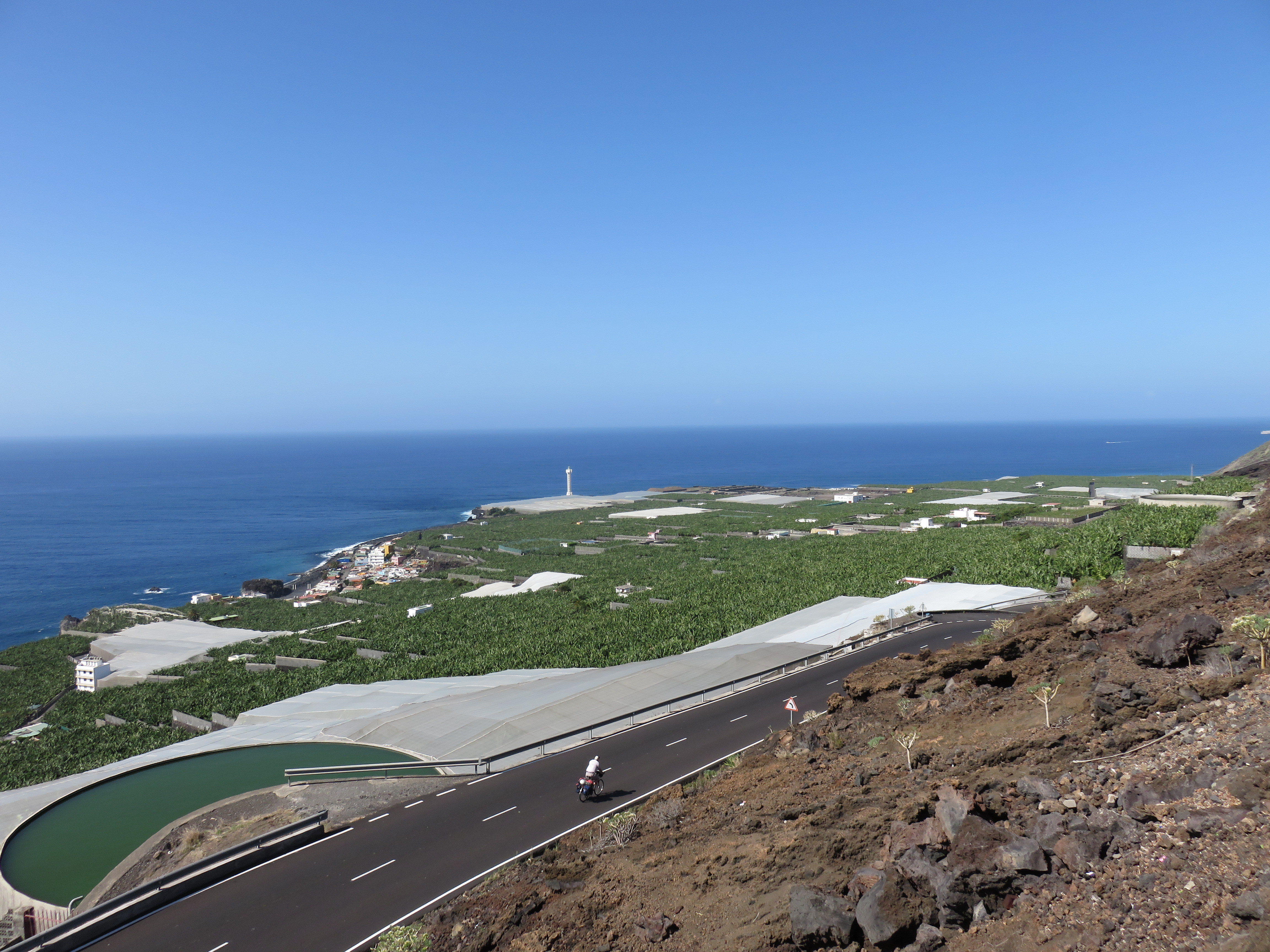 Las Hoyas, La Bombilla and Lighthouse in the municipality Tazacorte